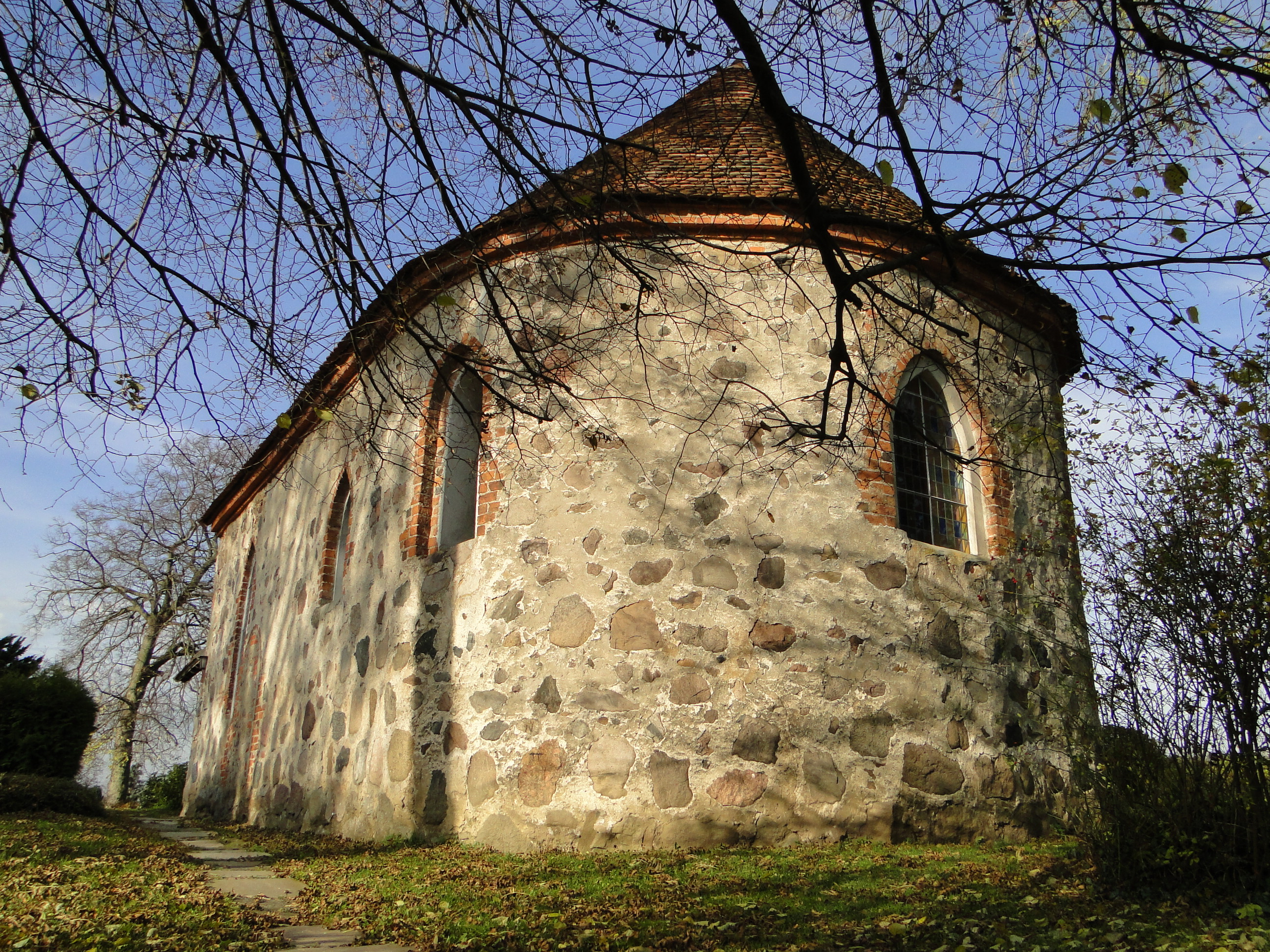 Church in Blankensee, district Mecklenburg-Strelitz, Mecklenburg-Vorpommern, Germany